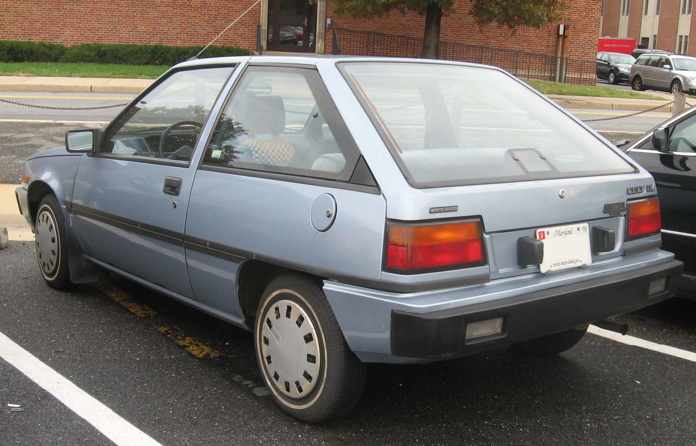 1987-1988 Dodge Colt photographed in College Park, Maryland, USA.